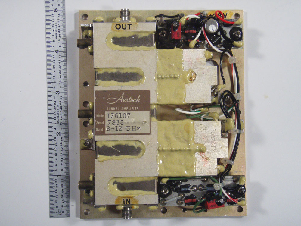 8-12 GHz tunnel diode amplifier manufactured by Aertech, used in aerospace applications. This is a two-stage amplifier. Each stage consists of a reflection amplifier made of a biased negative resistance tunnel diode and a circulator, a three-port ferrite device that separates the output signal from the input, and matching networks. The input signal to each device is applied to port 1 at bottom of its heat sink, and is transferred to port 2 at right, connected to the tunnel diode mounted in the heat sink. The output from the tunnel diode emerges from port 3 at the top of the device. The circulator provides about 20dB isolation of the output from the input, so the gain of each stage must be limited below this value to prevent feedback, requiring 2 or more stages to achieve significant amplification. More information on these amplifiers is on Brooke Clarks Aertech website